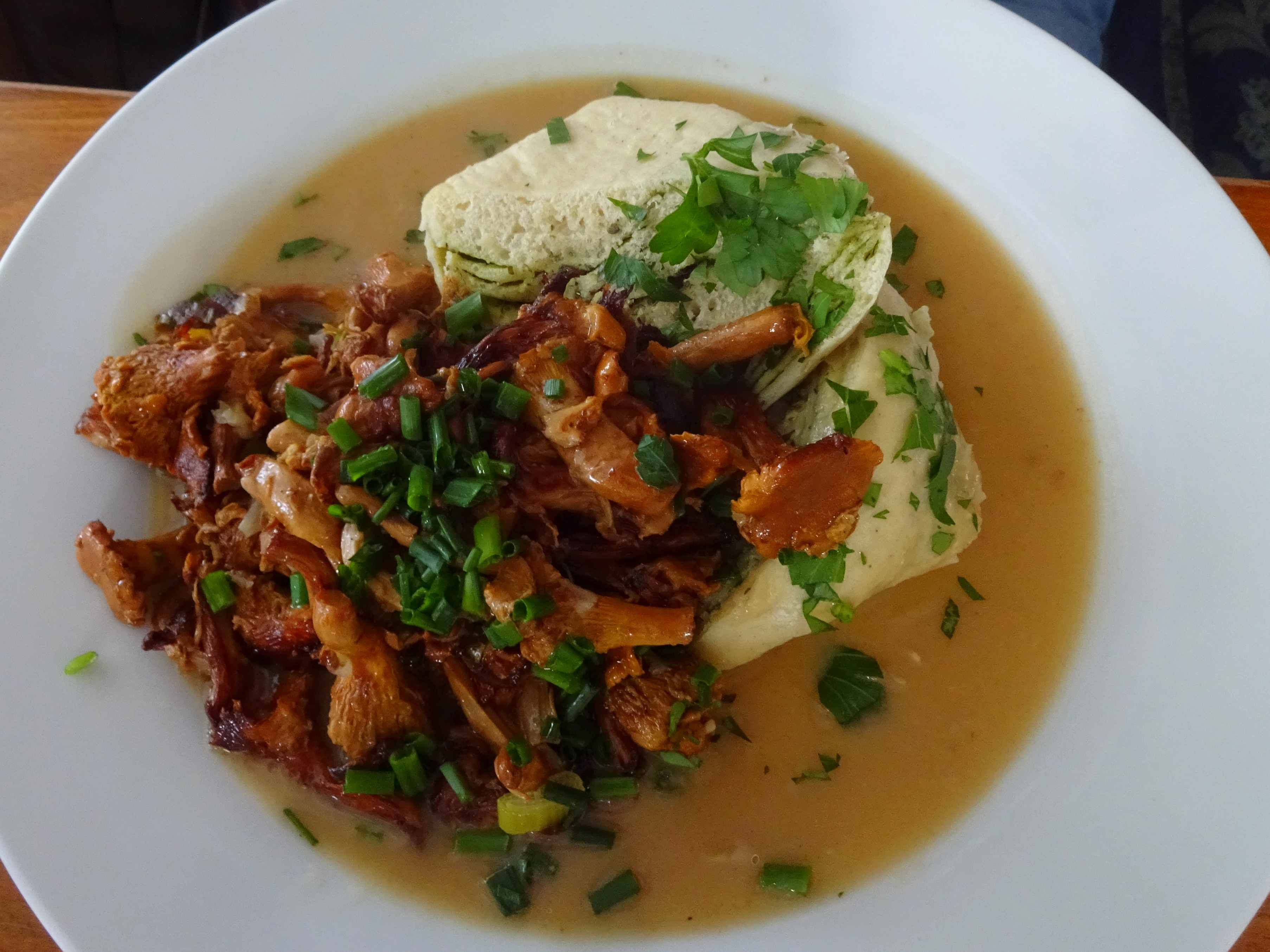 Chanterelles with cream sauce and dumpling as a side dish. With the wrapped dumpling, the dumpling dough is spread with butter, sprinkled with marjoram and then wrapped. The dumpling dough consists of a yeast dough. Photographed in the Caputh ferry house.